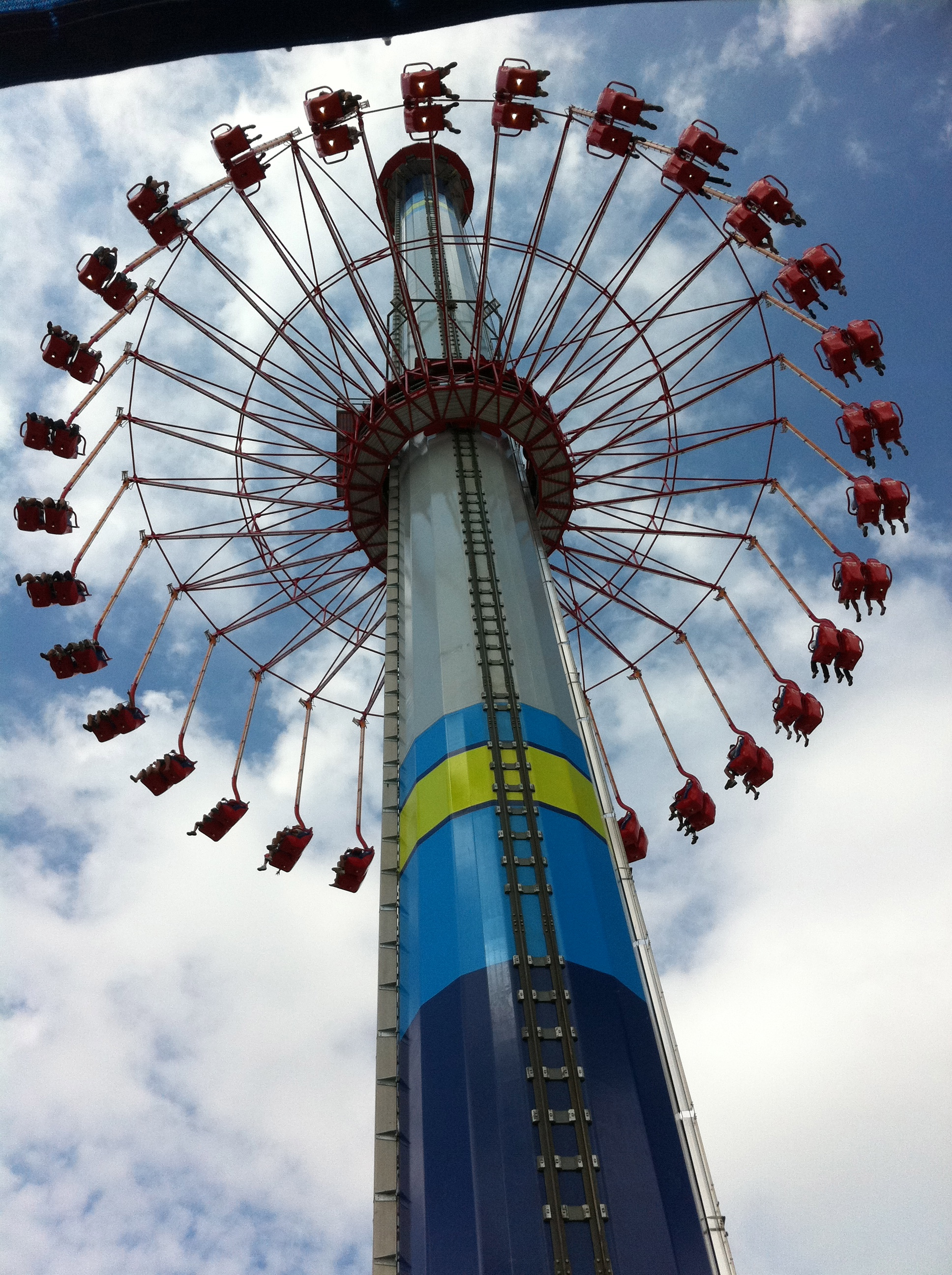 Windseeker at Cedar Point in Sandusky, Ohio in August, 2011.